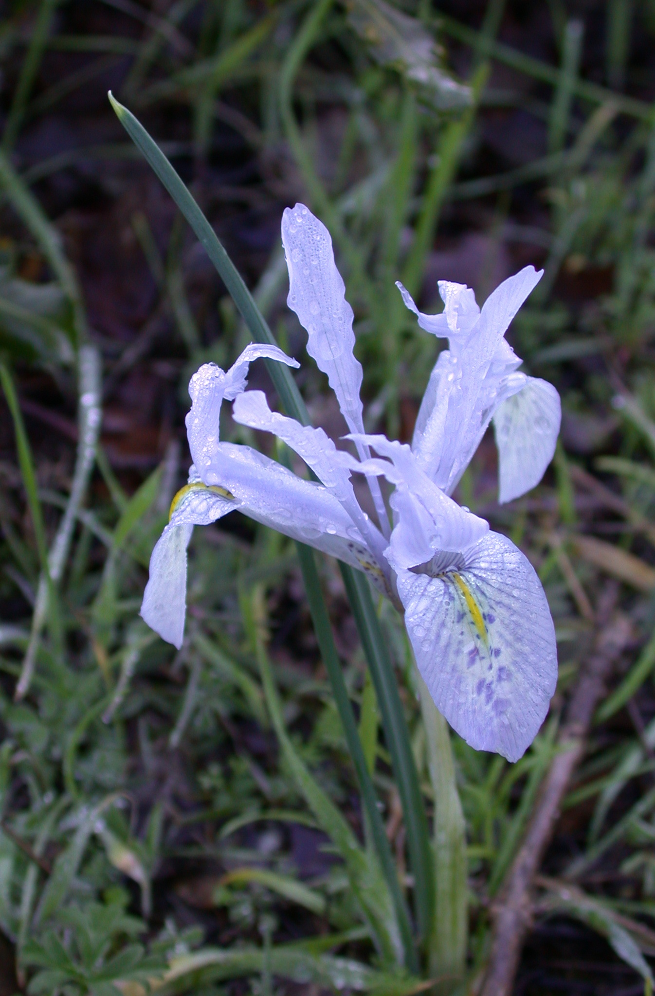 Iris histrio Rchb.f. (אירוס הלבנון), Mount Meiron, Upper Galilee, Israel, January 21, 2006.